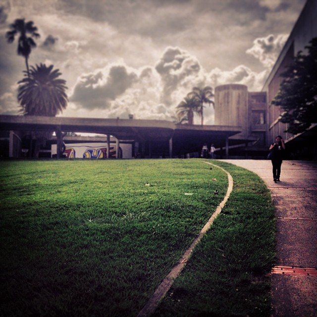 venezuela #ucv #photooftheday #arquitectura #sky #instaphoto